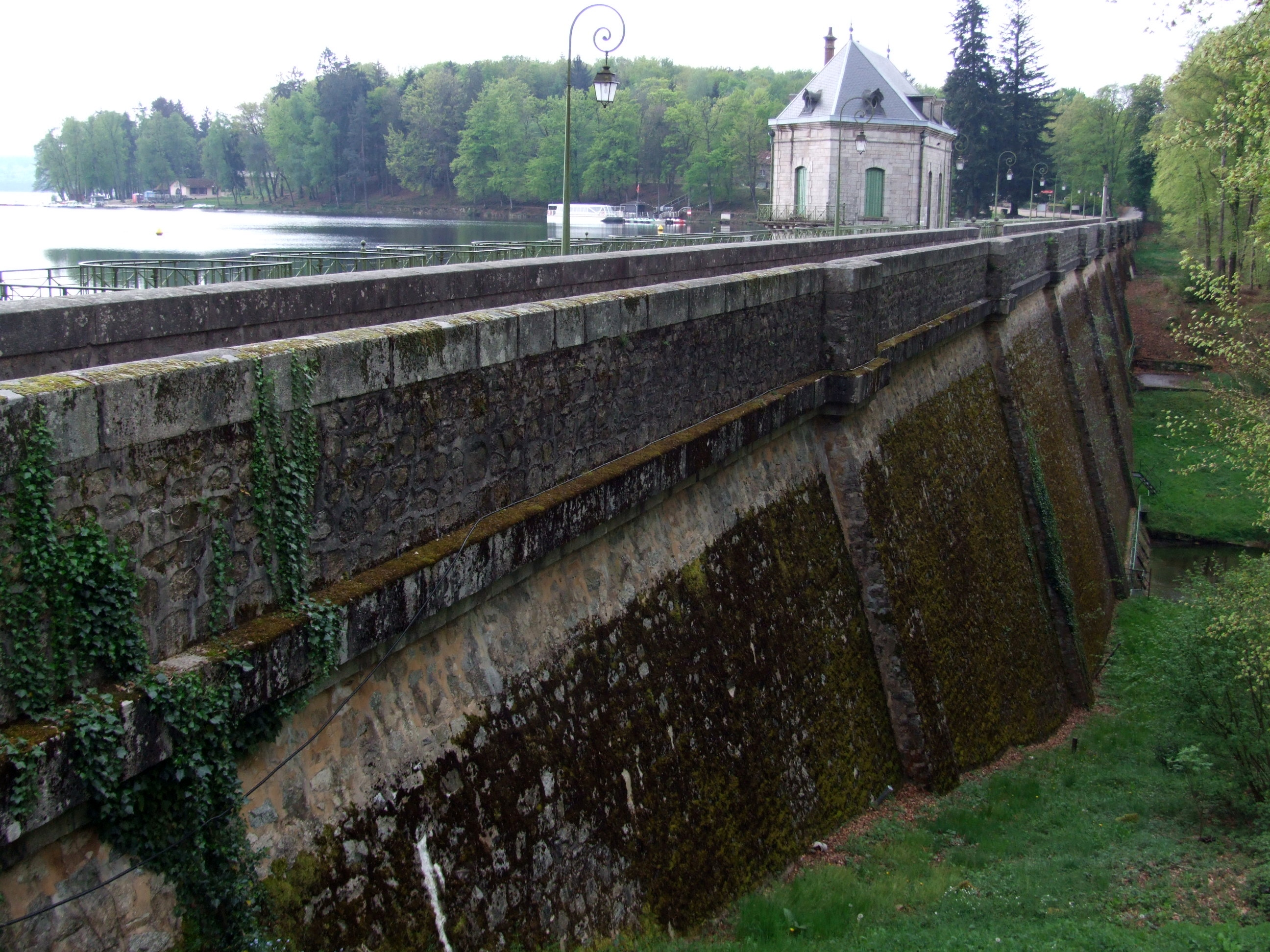 Dam, Setton lake, Burgundy, FRANCE